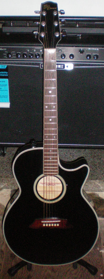 The Mason Bernard BE-140 Electric-acoustic guitar.